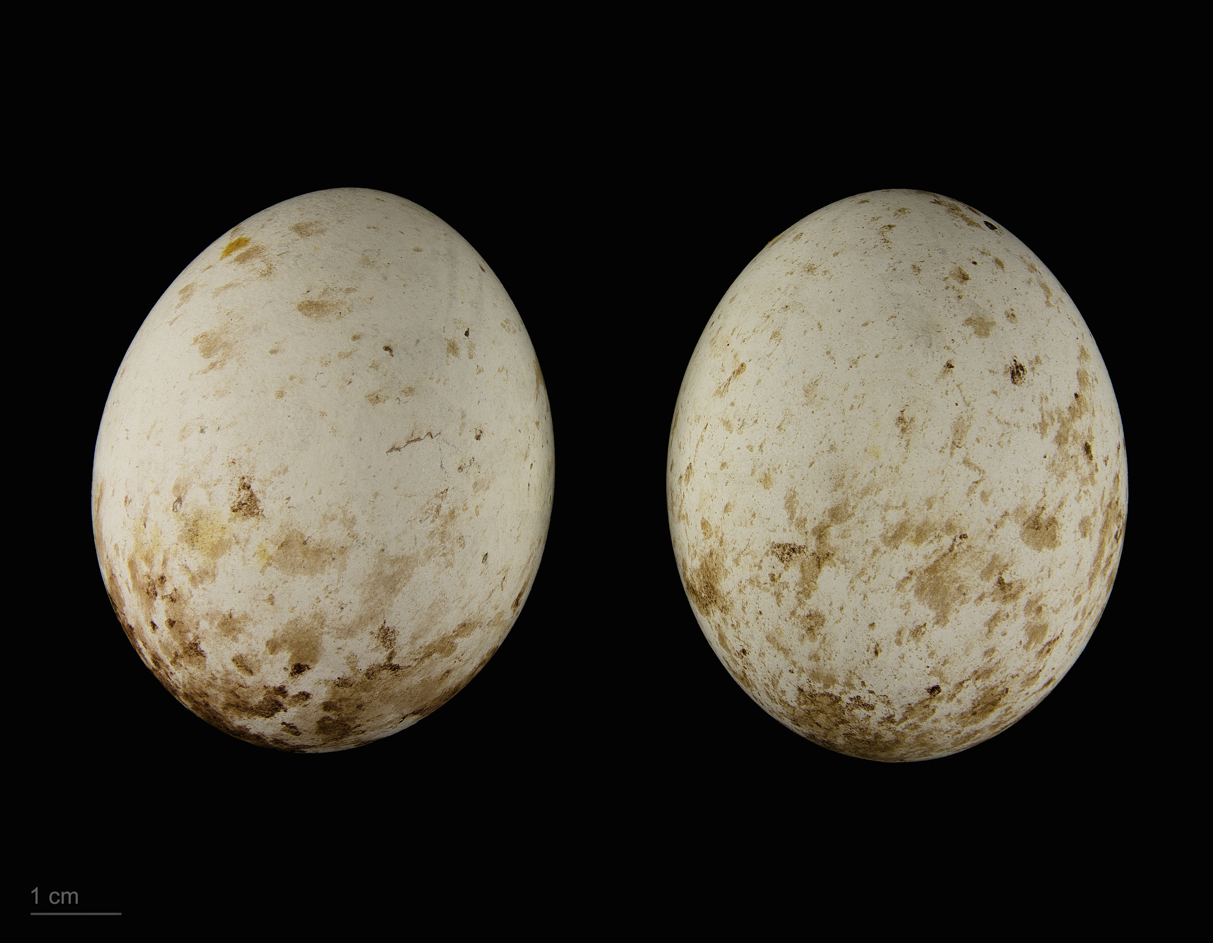 Eggs of rough-legged buzzard Two specimens of the same spawn ; collection of Jacques Perrin de Brichambaut.